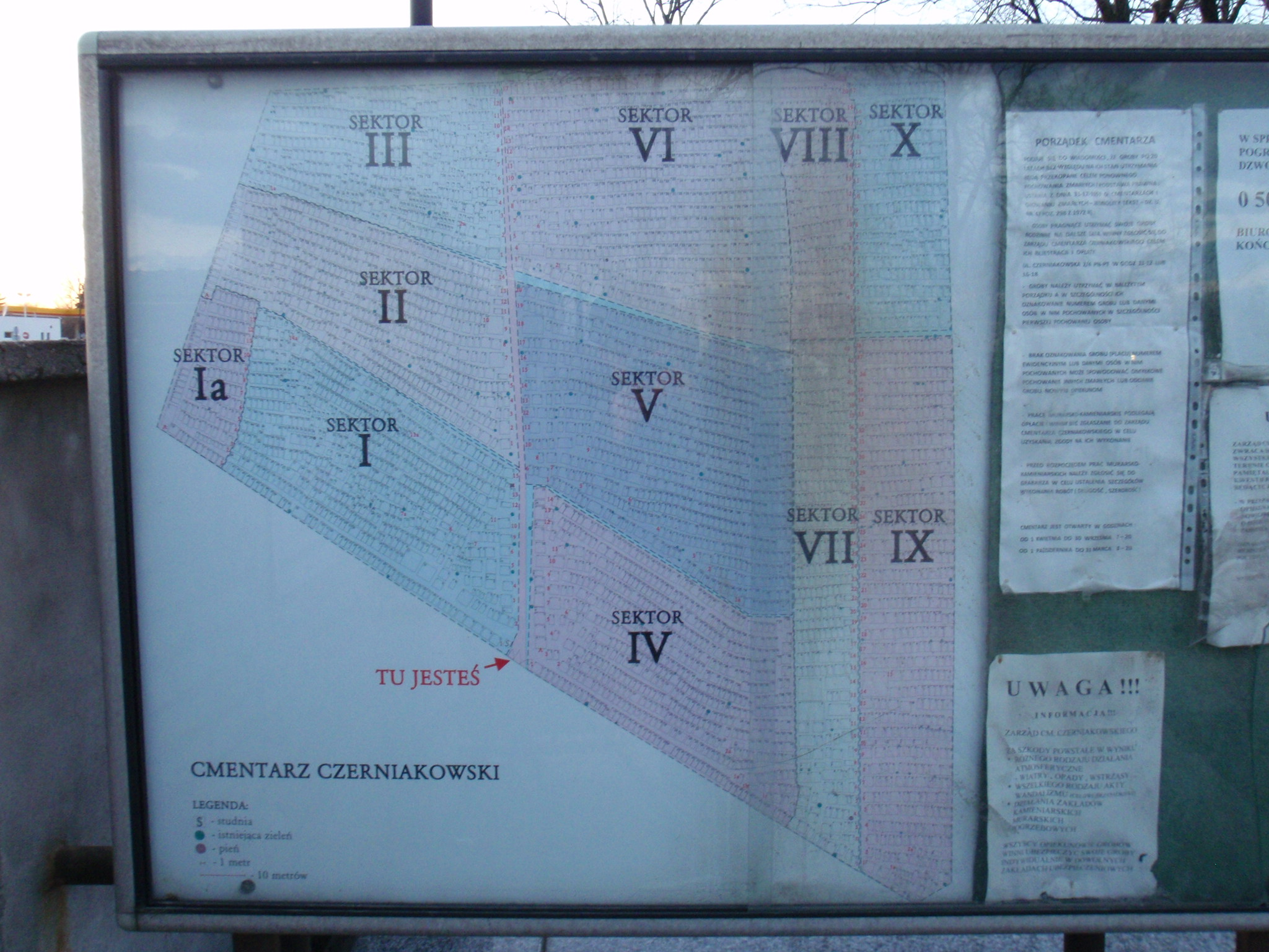 Map of Czerniaków Cemetery